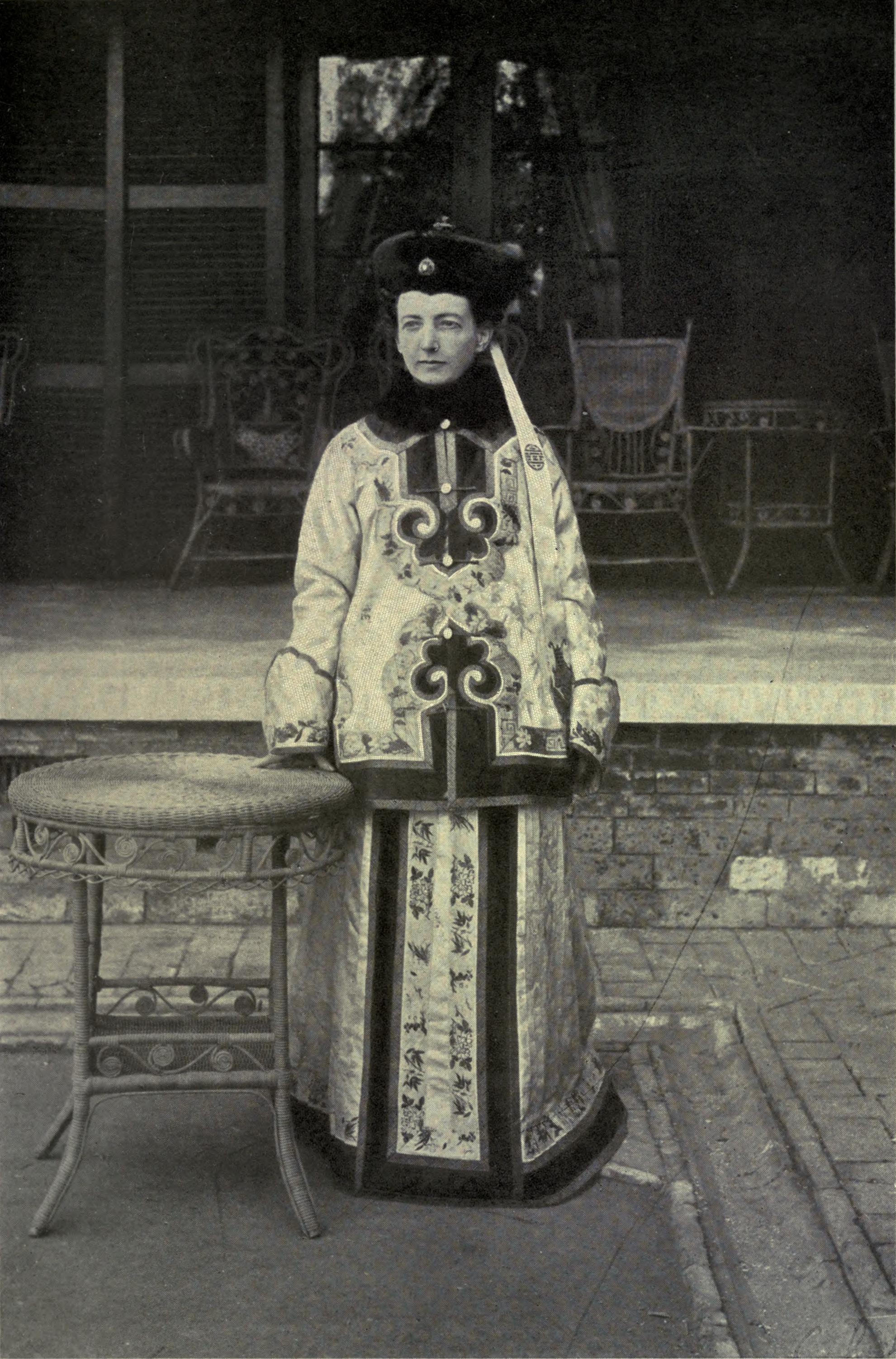 Katharine Carl in Chinese costume.